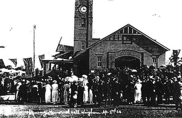 Wingham Memorial Town Hall: Photograph of the opening day celebrations on 2 April 1924, from the 75th anniversary souvenir program, 1999.